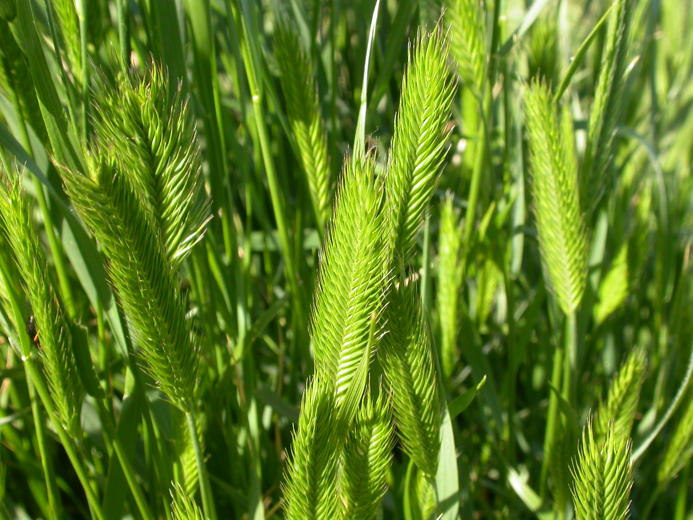 The inflorescence of crested wheatgrass is distinctive in its spikelets that diverge at wide angles and from short internodes.